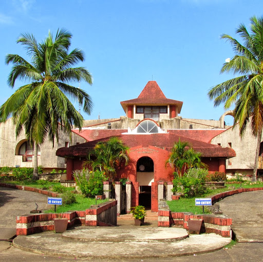 Goa University Reception